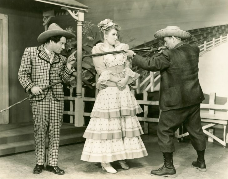 [Scene from "Oklahoma," 1943-1944. Theatre Guild production] (L. to R. : Joseph Buloff, Celeste Holm & Ralph Riggs)